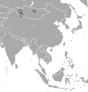 Przewalski's Horse (Equus ferus) range (reintroduced)